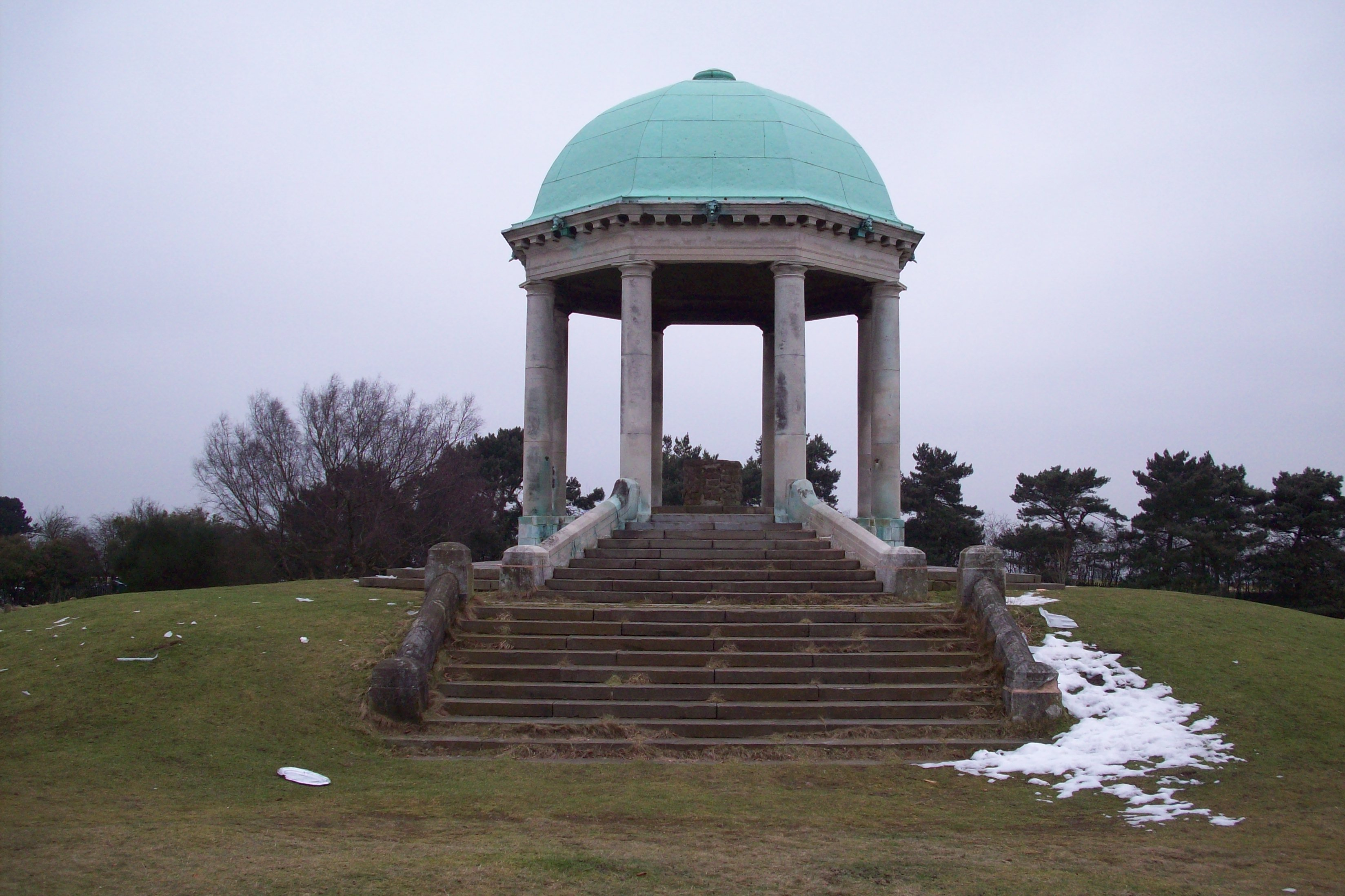 C Manning. My own photo taken of the Monument at the top of Barr Beacon Hill in the West Midlands. Picture date 14/02/09